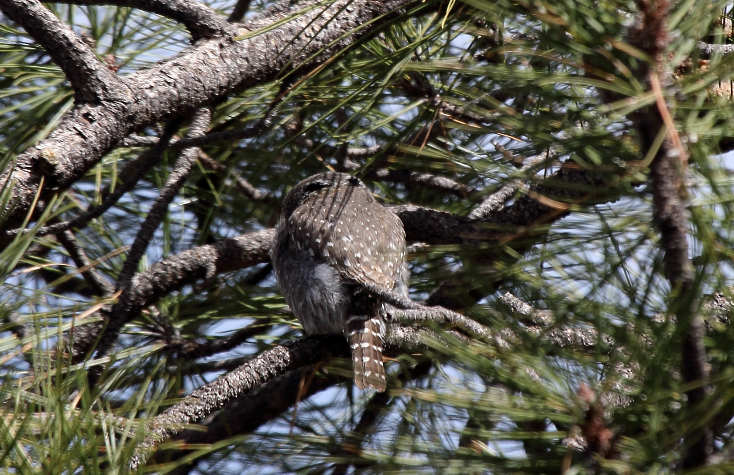 Back view of "false"eyes.